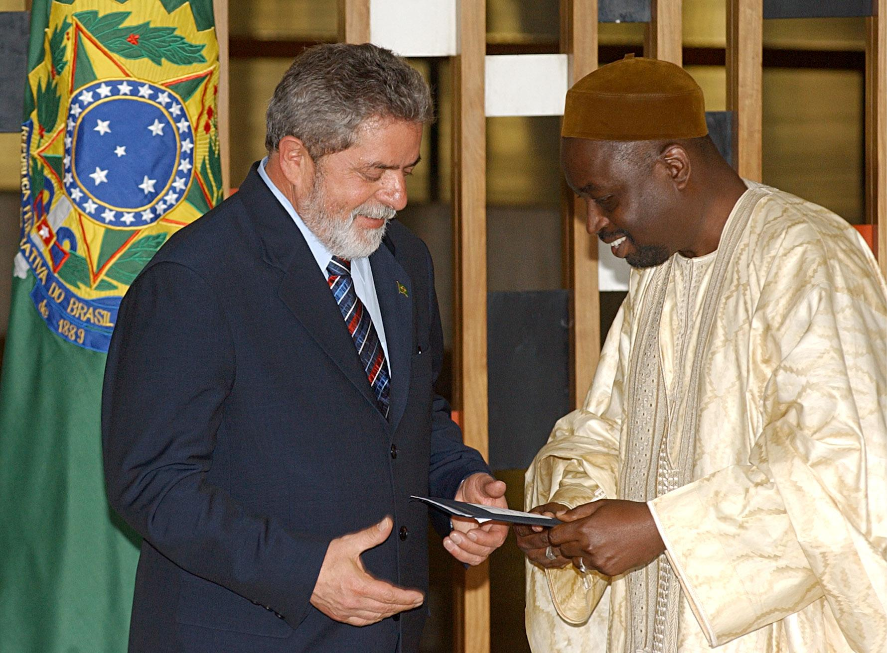 Dodou Bammy Jagne, Ambassador of The Gambia to the United States and non-resident Ambassador to Brazil presented his credentials to Luiz Inácio Lula da Silva, President of Brazil.